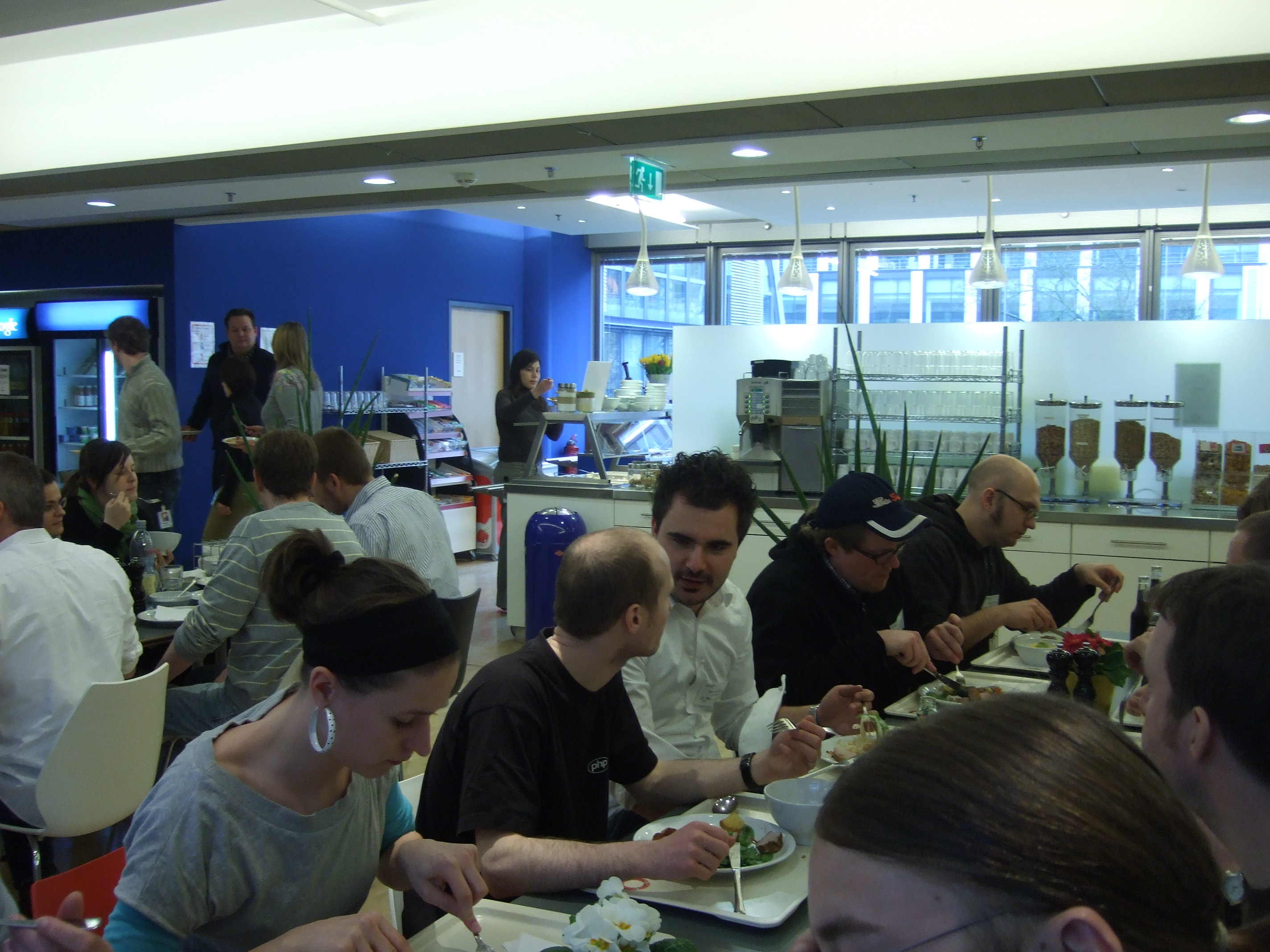 At the Google Office in ABC-Straße 19, 20354 Hamburg, Deutschland.